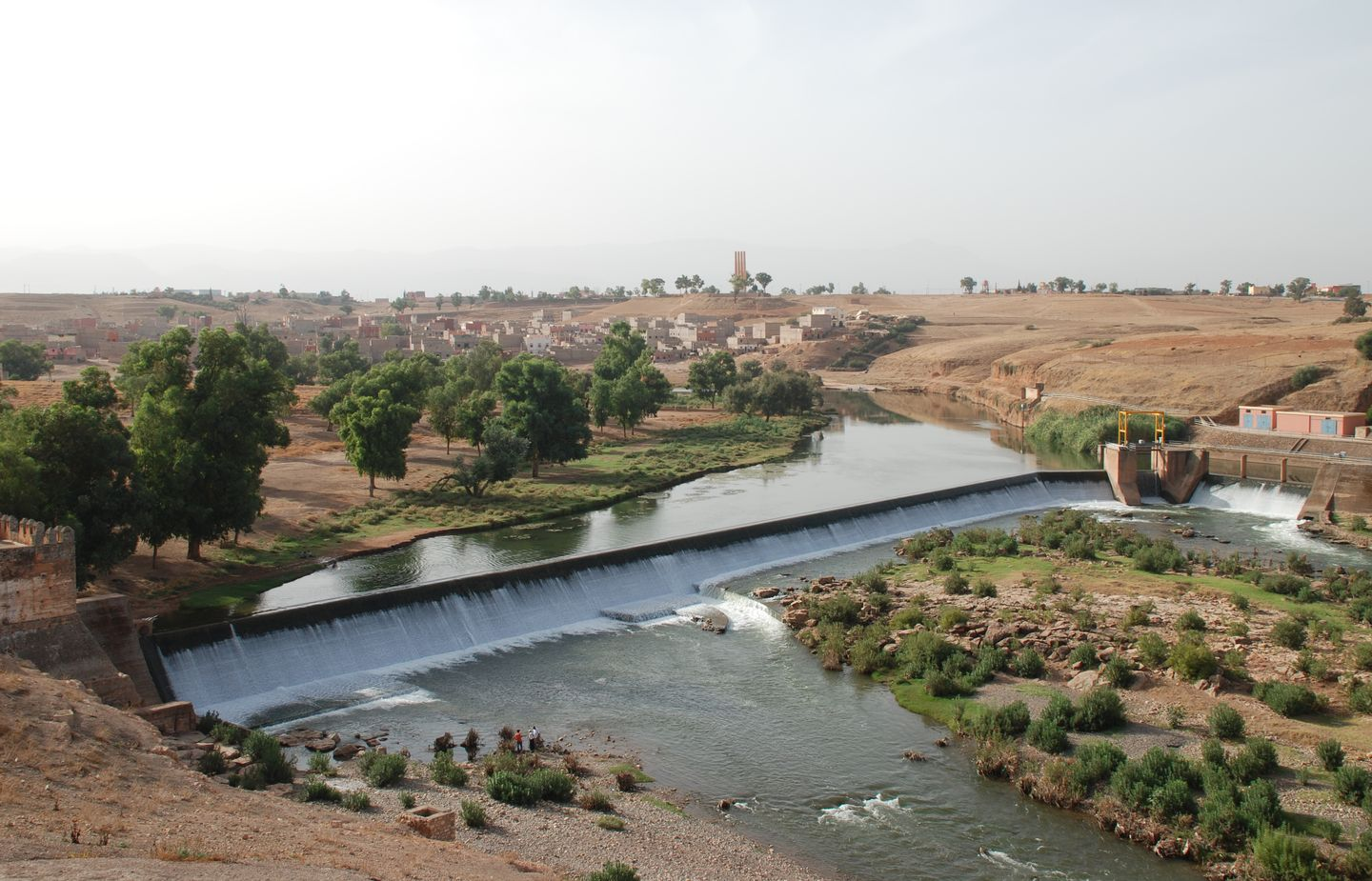 Kasba Tadla, Morocco, river Oum er-Rbia